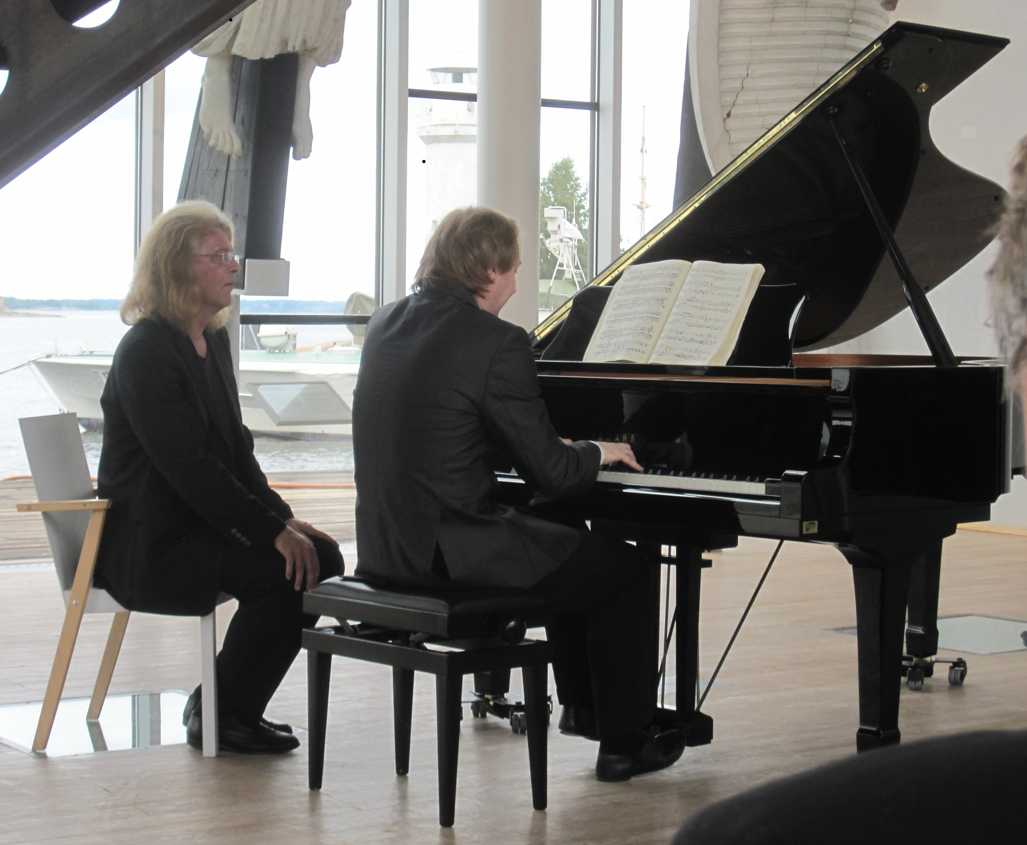 Pianist Per Tengstrand performing the Beethoven Hammerklavier sonata at Marinmuseum, Karlskrona.